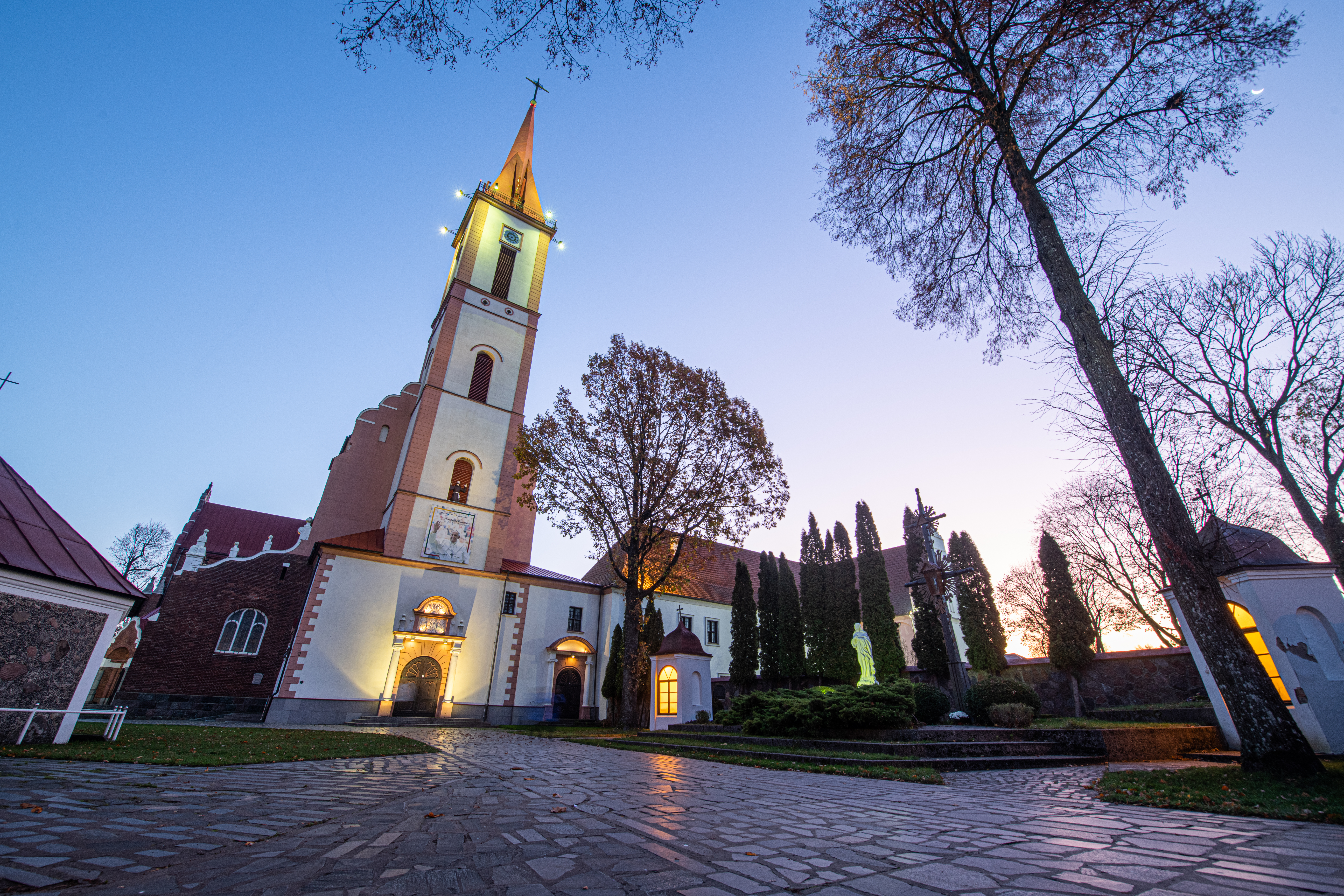 Kretinga Bernardine Monastery and the Lord’s Revelation to Virgin Mary Church building complex